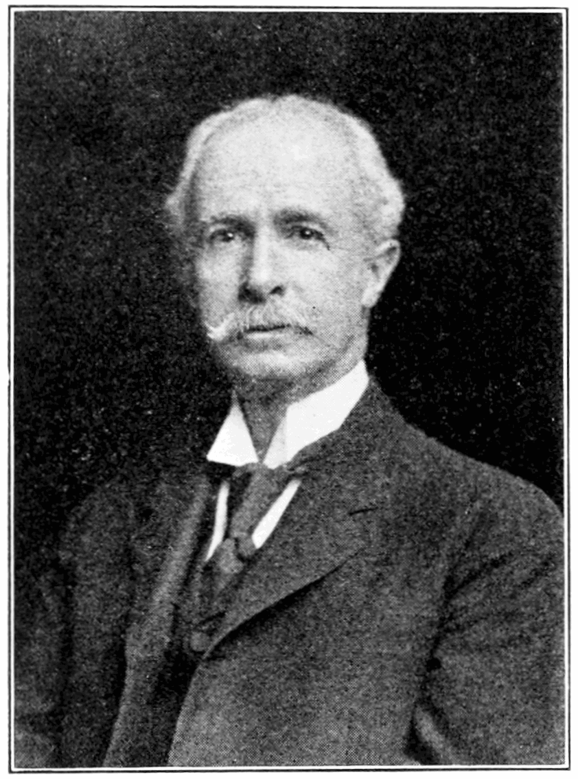 Joseph Paxson Iddings